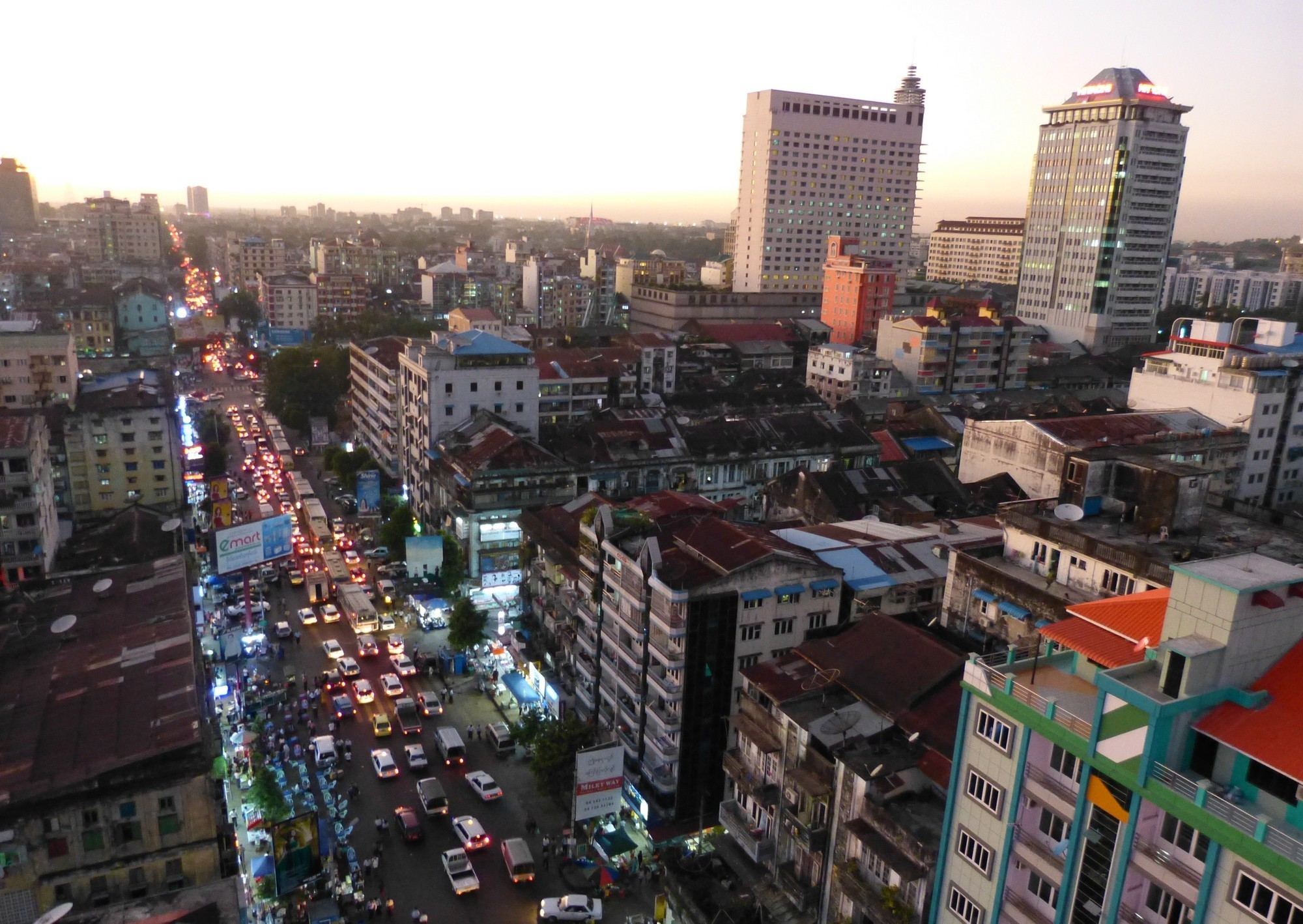 Central downtown sunset, Yangon